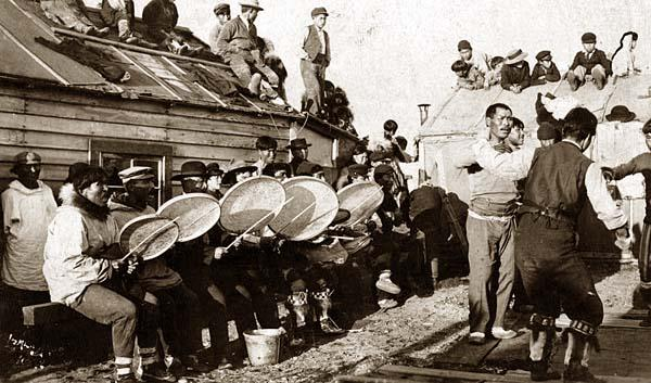 Inuit dance near Nome in 1900 Description given at the source: "(...) An Eskimo dance near Nome. It was made in 1900." (text from same source)